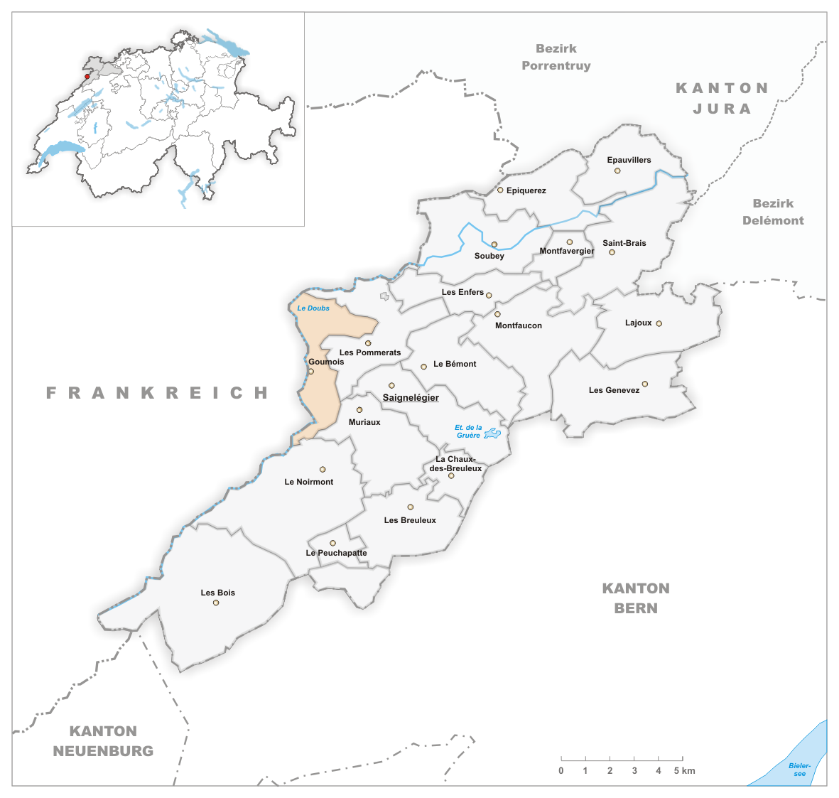 Municipality Goumois